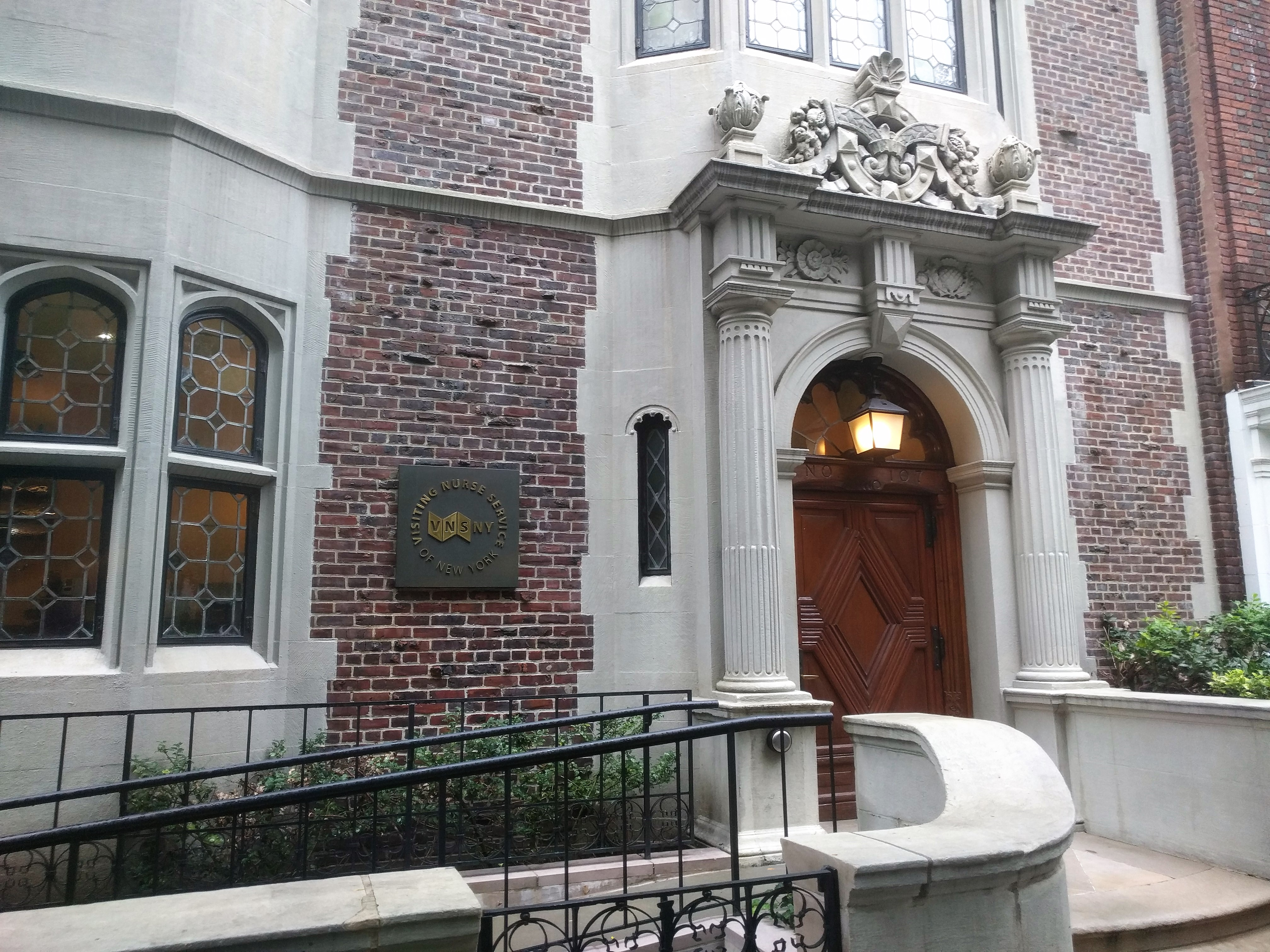 Looking east at Visiting Nurse Service office door on a cloudy day